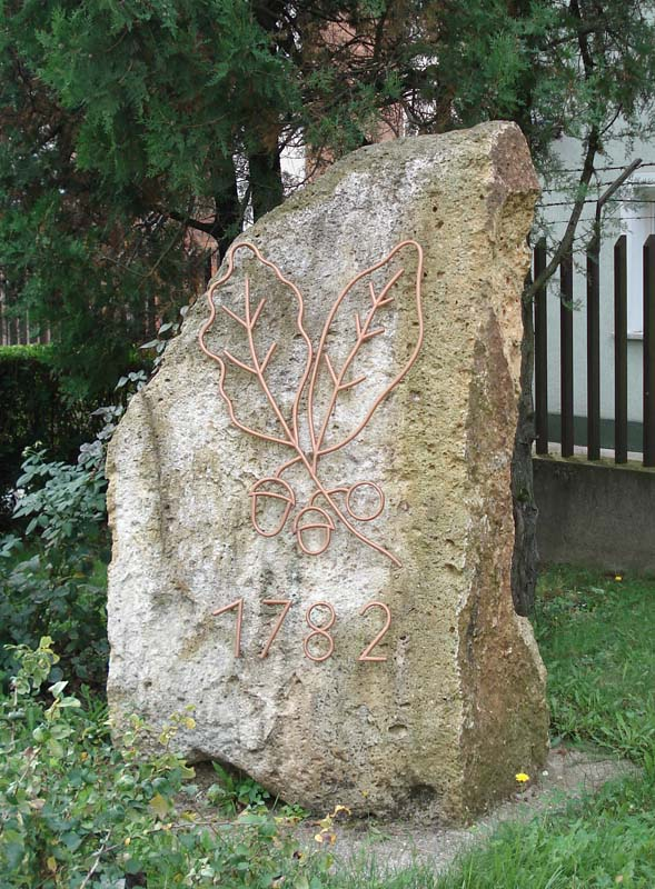 Diósgyőr Paper Mill, Watermark. Miskolc-Diósgyőr, Hungary